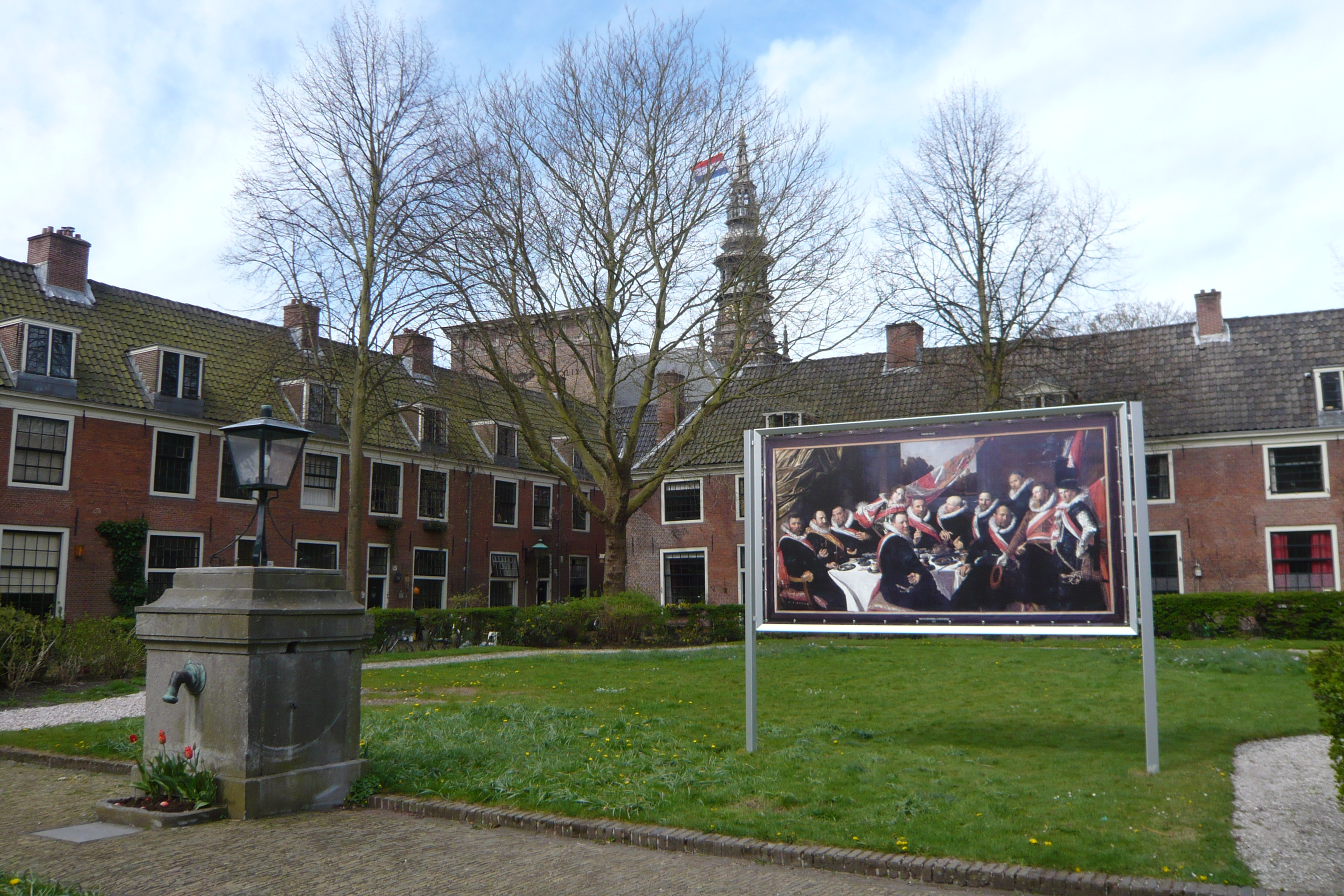 A reproduction of Frans Hals' schutterstuk from 1616 has been temporarily placed in the garden of the old "St. Joris Doelen", today the Proveniershof, Haarlem. The church tower in the distance is the Nieuwe Kerk, Haarlem. On the left is the old shared water pump (no longer in service).